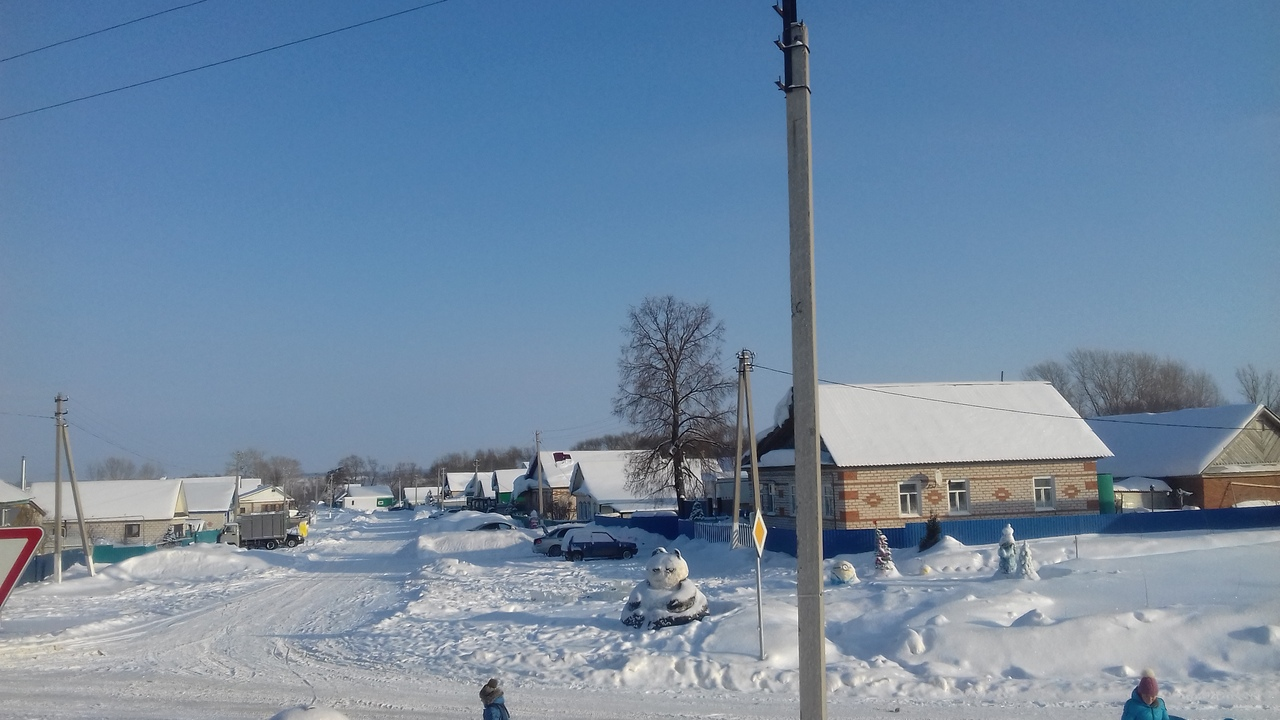 баландыш авылының Киров урамы башы.Кыш.